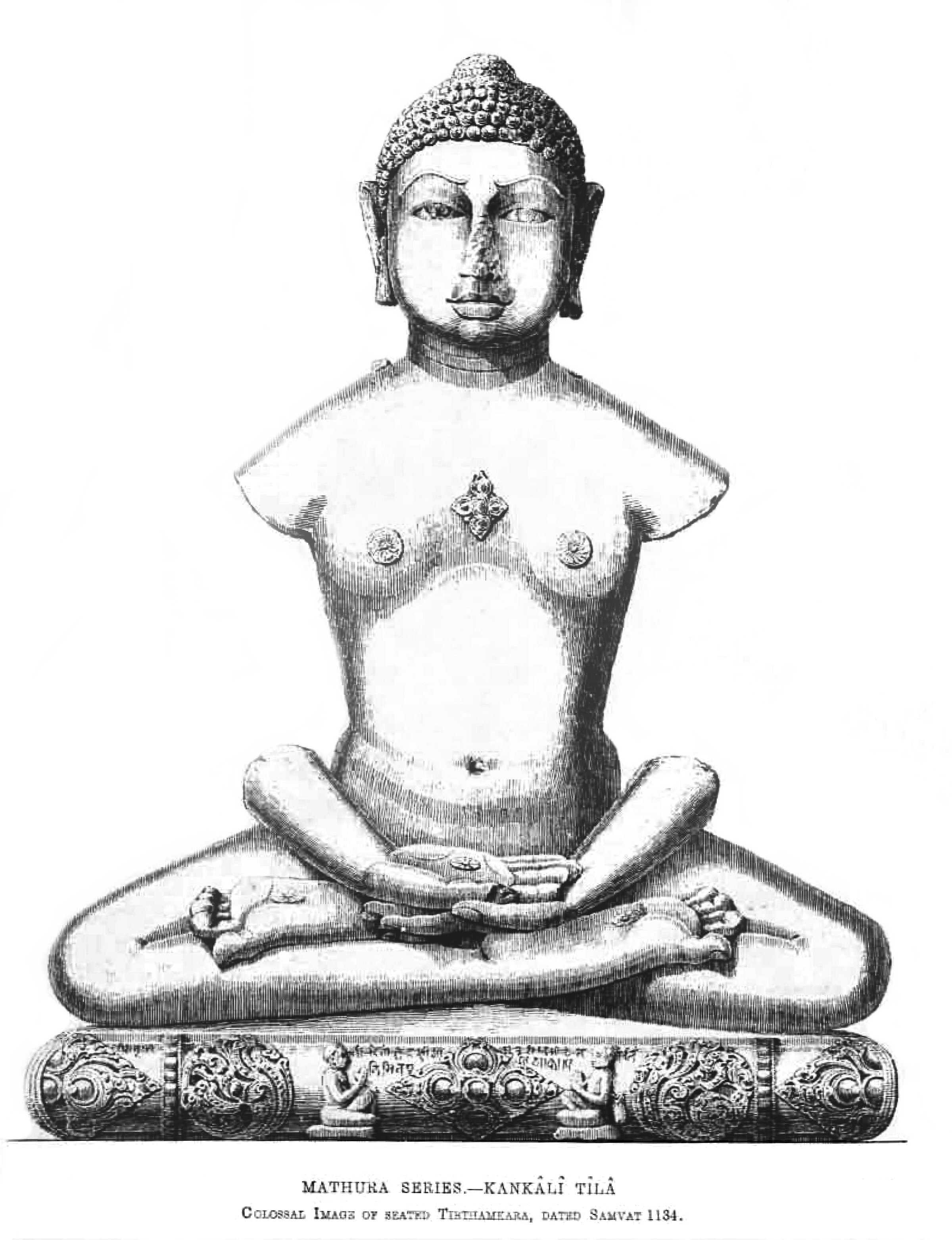 Jain statue dated Samvat 1134 (1077 CE), Kankali Tila, Mathura